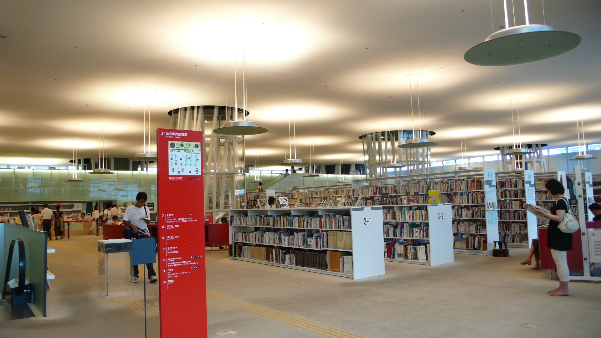 Sendai Mediatheque in Sendai, Miyagi pref., Japan.